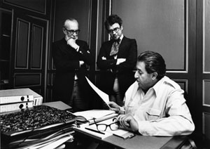 Pierre Jaccoud